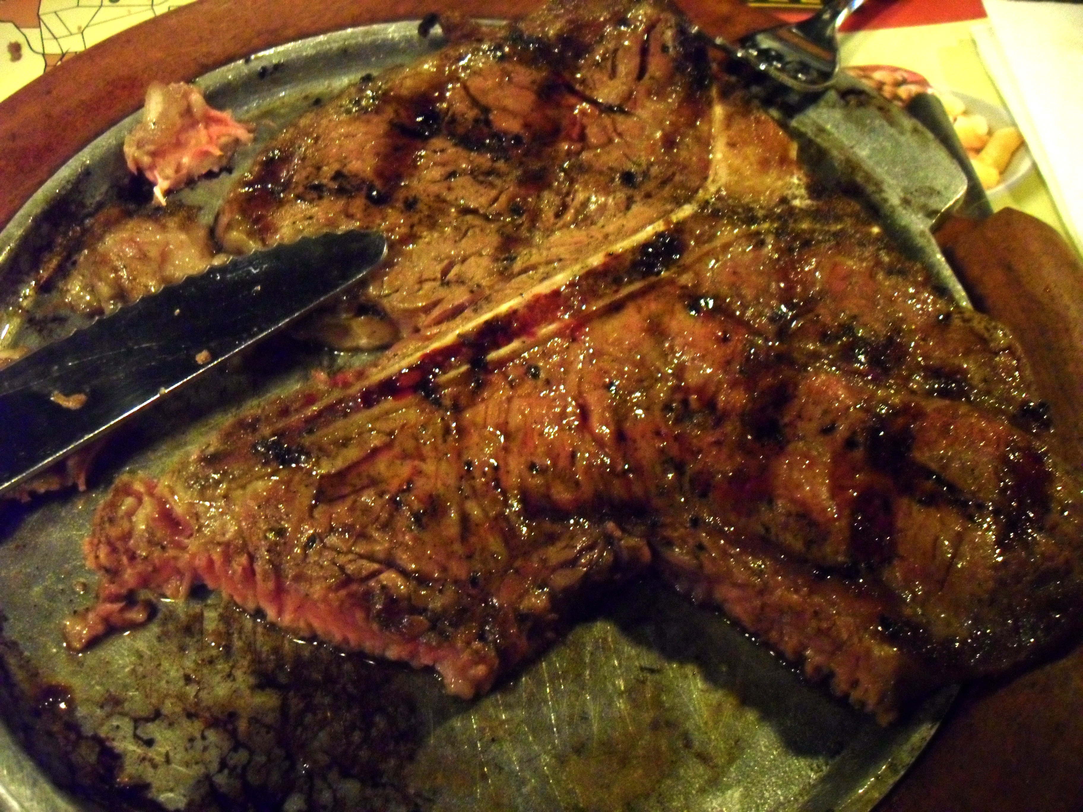 T-bone Steak